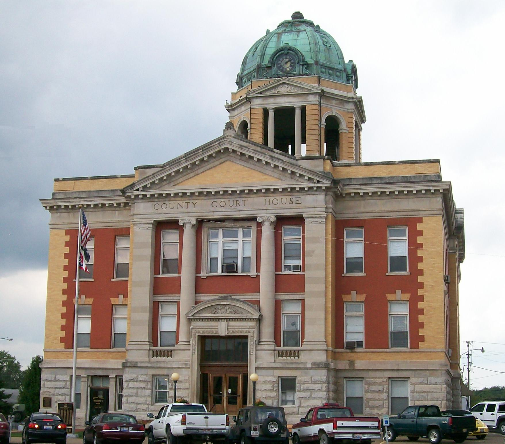 Front of the Monroe County Courthouse, located on Courthouse Square in downtown Woodsfield, Ohio, United States. Built in 1905 according to a Samuel Hannaford design, it is listed on the National Register of Historic Places.